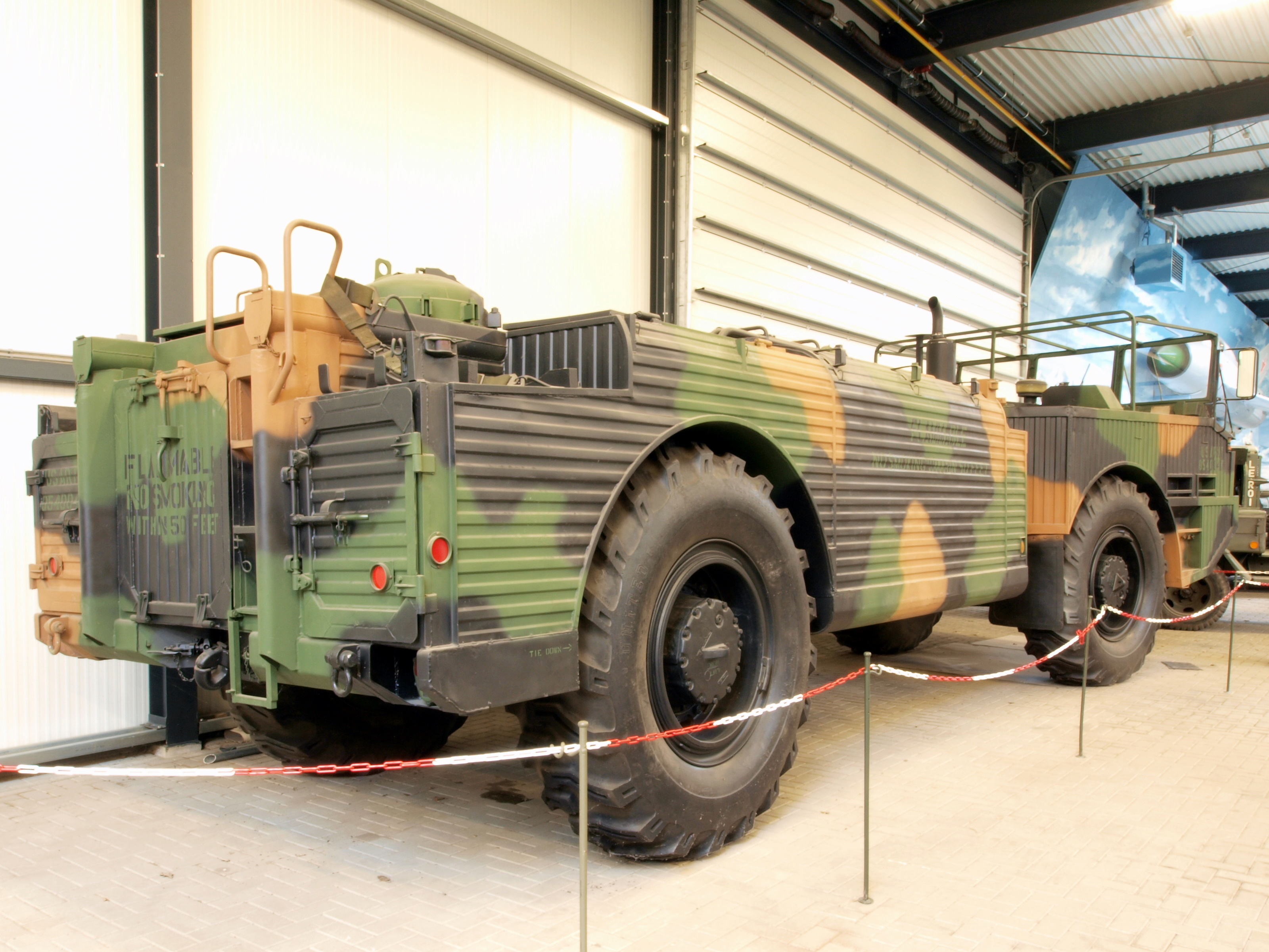 Photographed at the Marshallmuseum - Liberty Park - Oorlogsmuseum Overloon, The Netherlands. OLYMPUS DIGITAL CAMERA